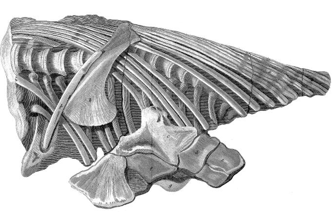 Drawing of a portion of the skeleton of an ichthyosaur (Temnodontosaurus platyodon[1]) found in 1812 by Joseph and Mary Anning.